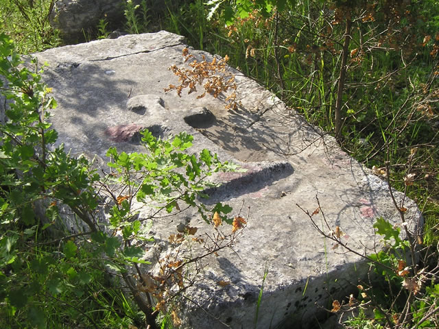 Stećci in Tihaljina,Grude